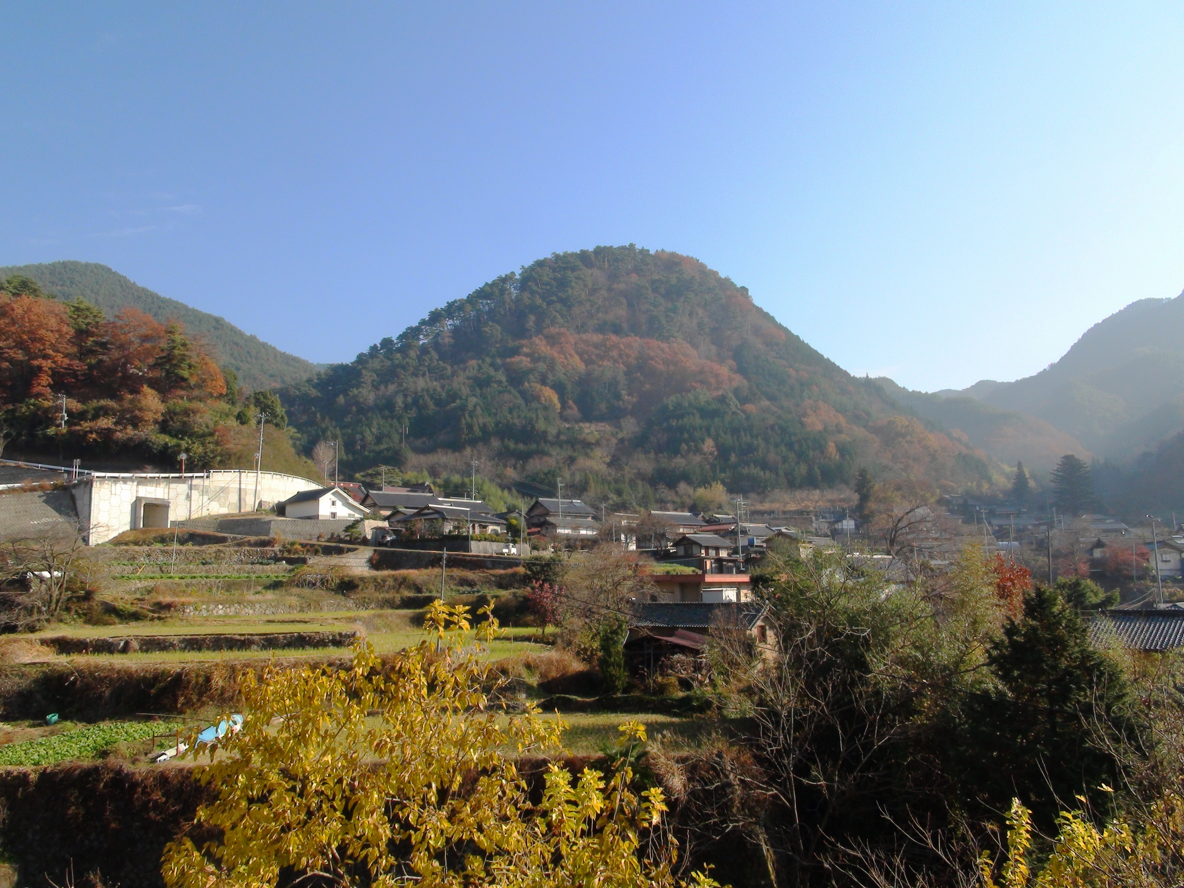 Mt.Yogai Kofu city